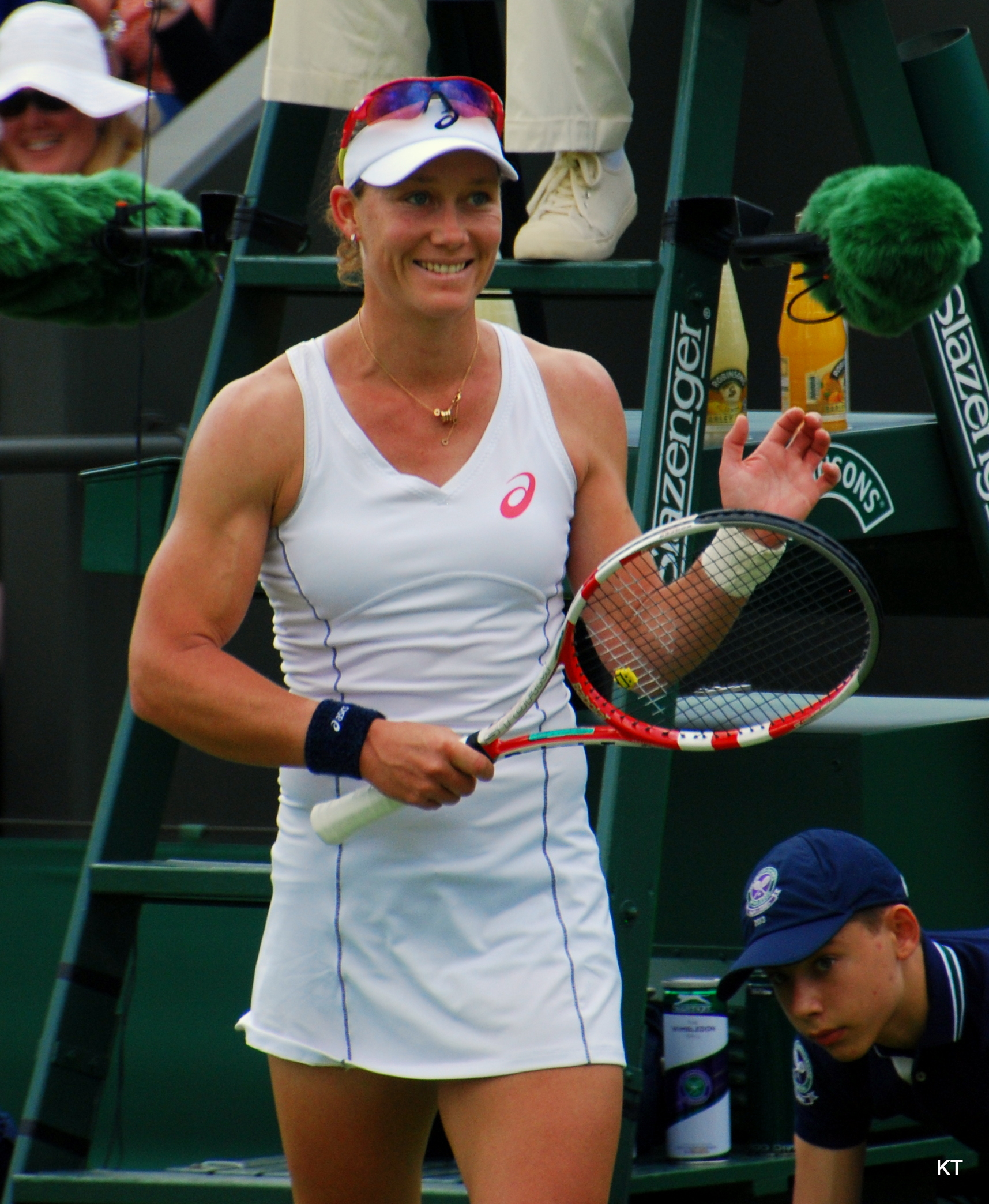 Sam Stosur wins